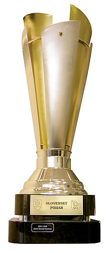 Slovakian cup